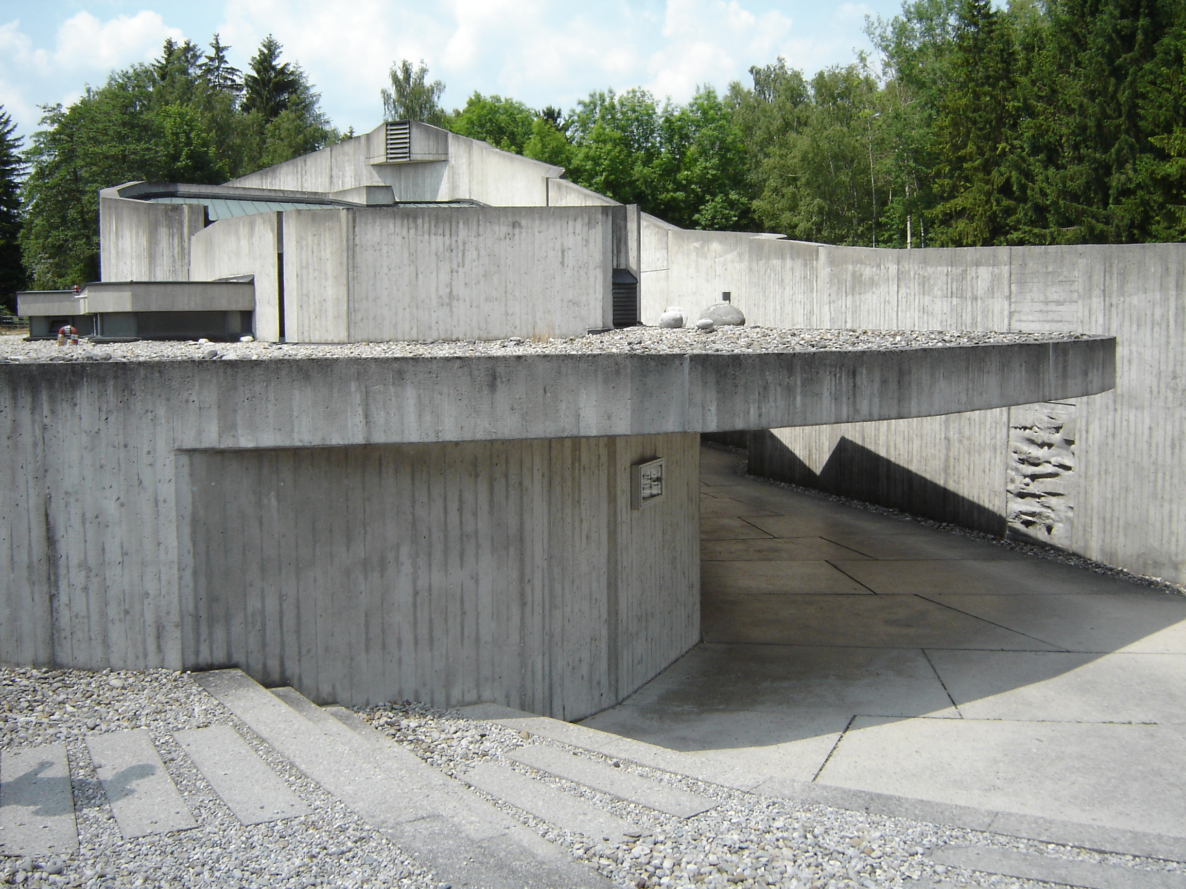 Picture of the Protestant Church of Reconciliation at Dachau concentration camp in Dachau, Germany taken June 16, 2005.